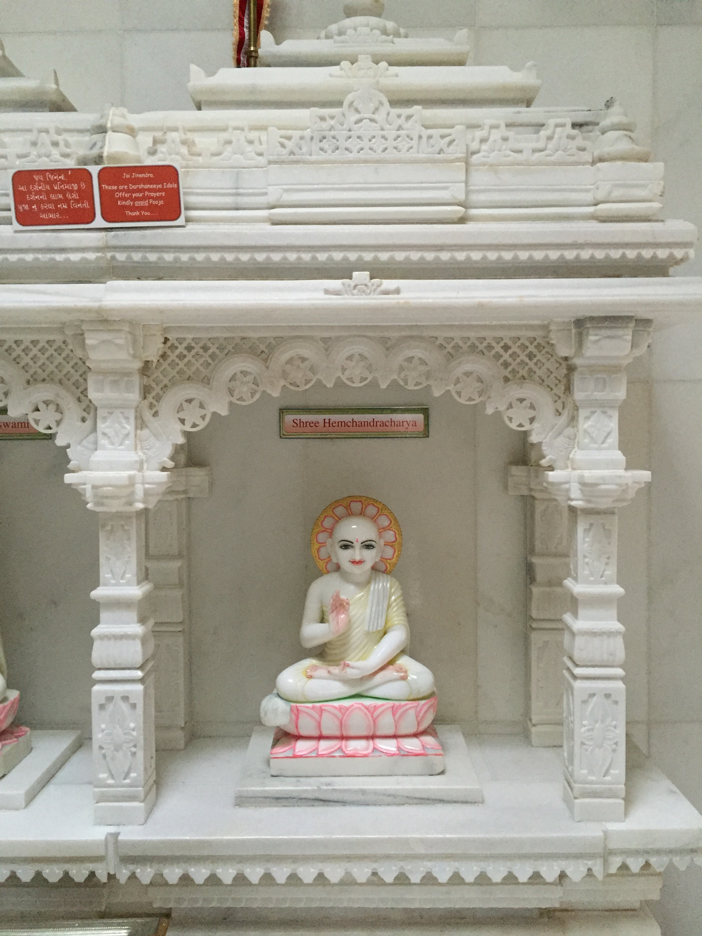 Hemachandra Acharya, Jain Center of New Jersey - Franklin Township